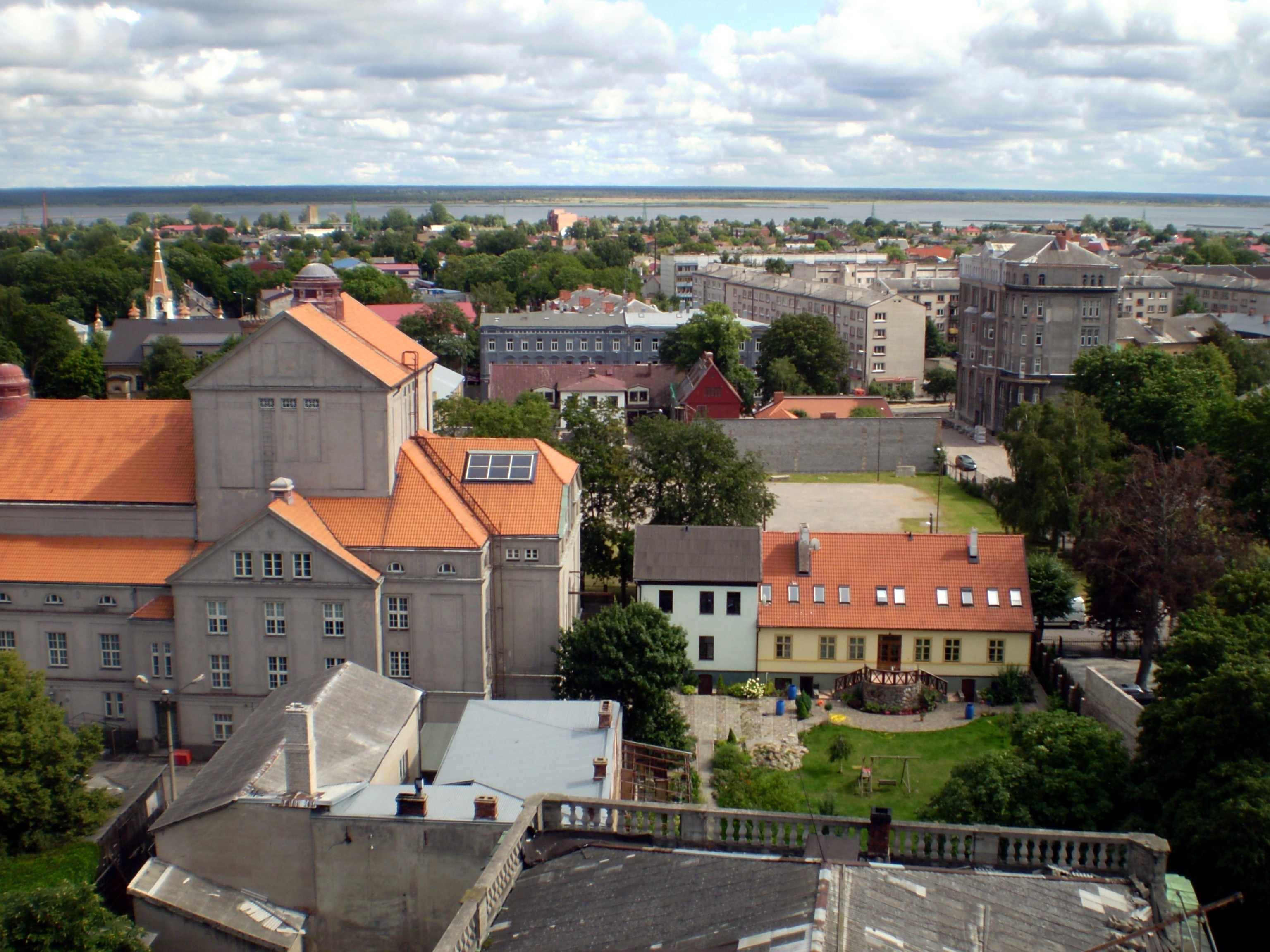 A view from the tower of Holy Trinity Cathedral in Liepāja, Latvia.